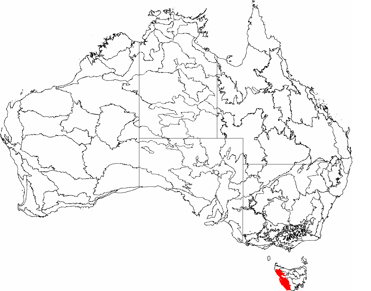 This is a map of the Interim Biogeographic Regionalisation of Australia (IBRA), with state boundaries overlaid. The Tasmanian West region is shown in red.